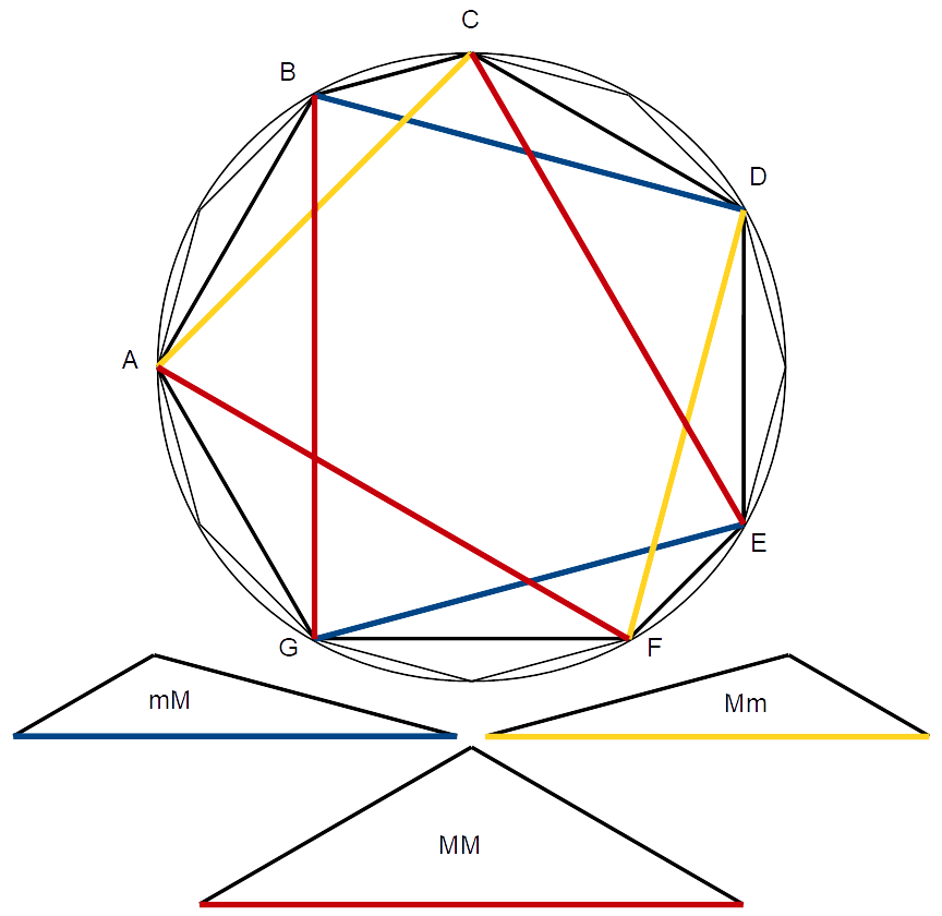 Three note groups of the diatonic scale in the chromatic circle. Because the diatonic scale possesses a quality known as "cardinality equals variety" given a consecutive three note group, such as CDE, there are three classes of three note groups in the diatonic scale : MM/22 (red), Mm/21 (yellow), and mM/12 (blue).